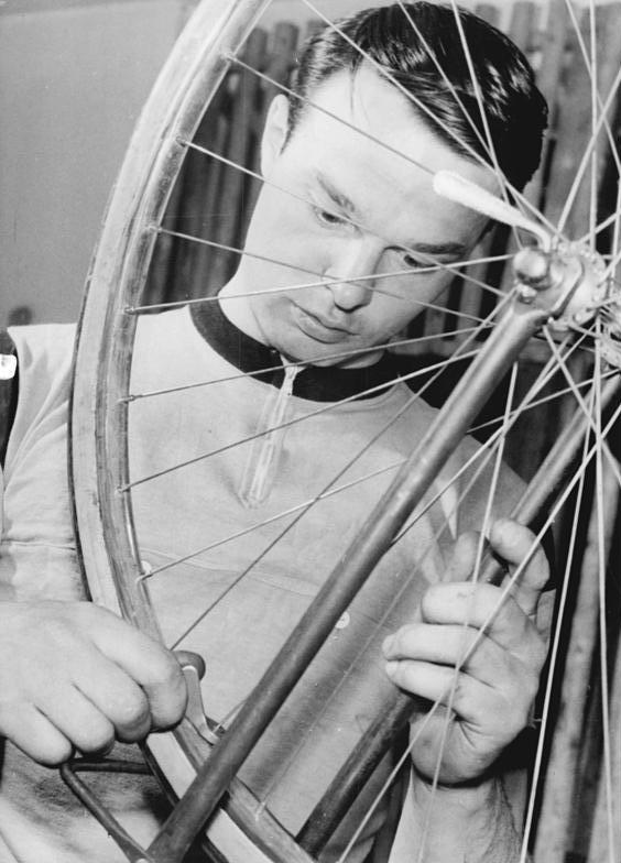 A man truing his wheel with a spoke wrench